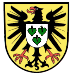 Coat of arms of Bodman-Ludwigshafen